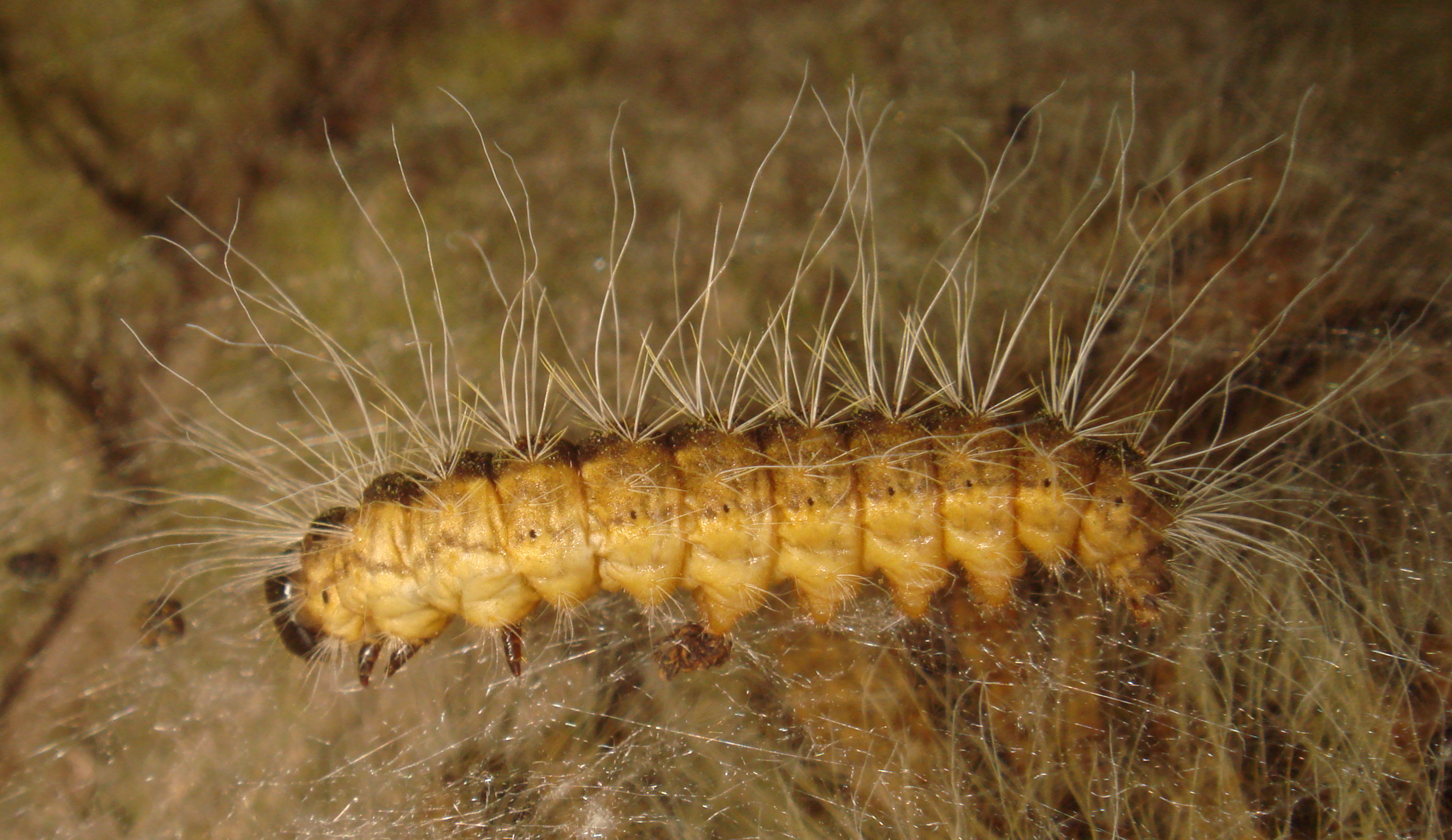 Caterpillar of Thaumetopoea processionea on bark of Quercus robur in Berlin, Germany